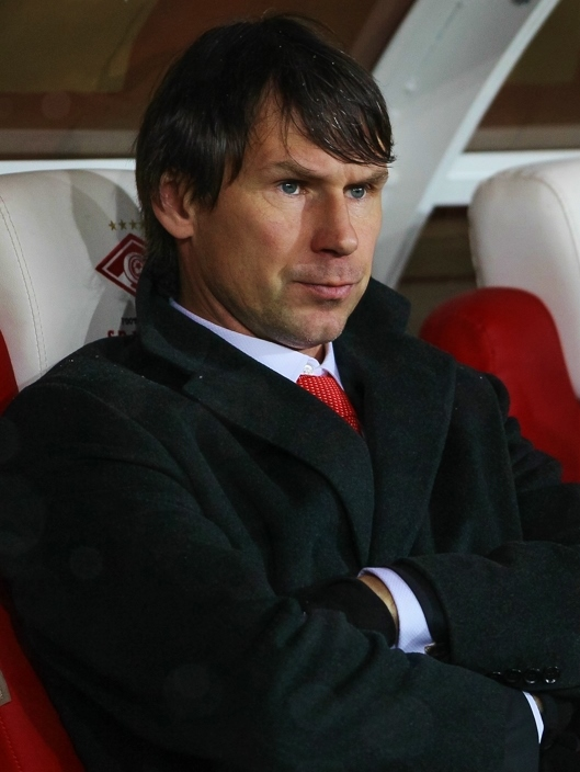 Egor Titov